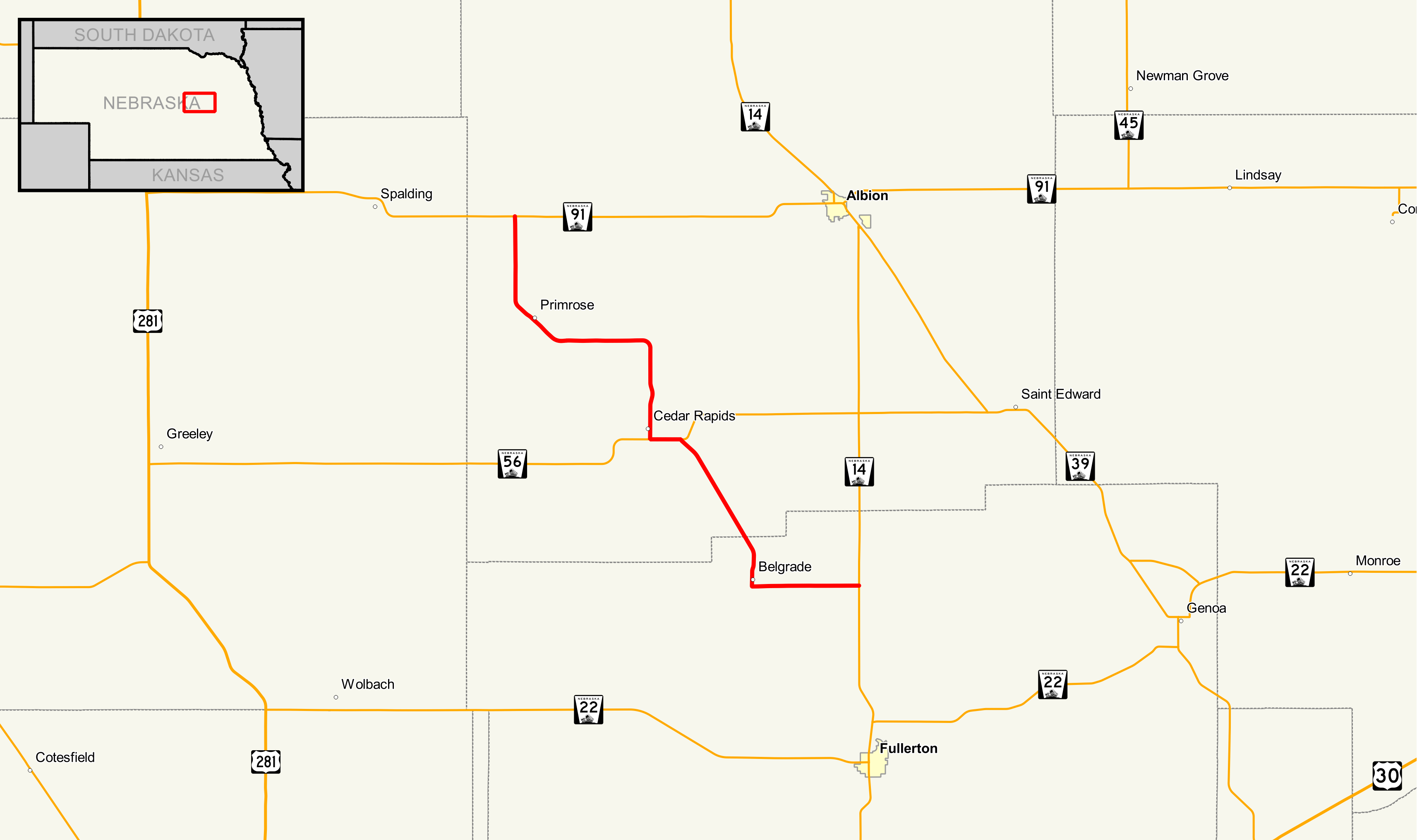 Map of Nebraska Highway 52 Data Sources: Nebraska Highways - - Dec 2016 Nebraska County Boundaries - - Dec 2016 Nebraska City Boundaries - - Dec 2016 This PNG graphic was created with QGIS